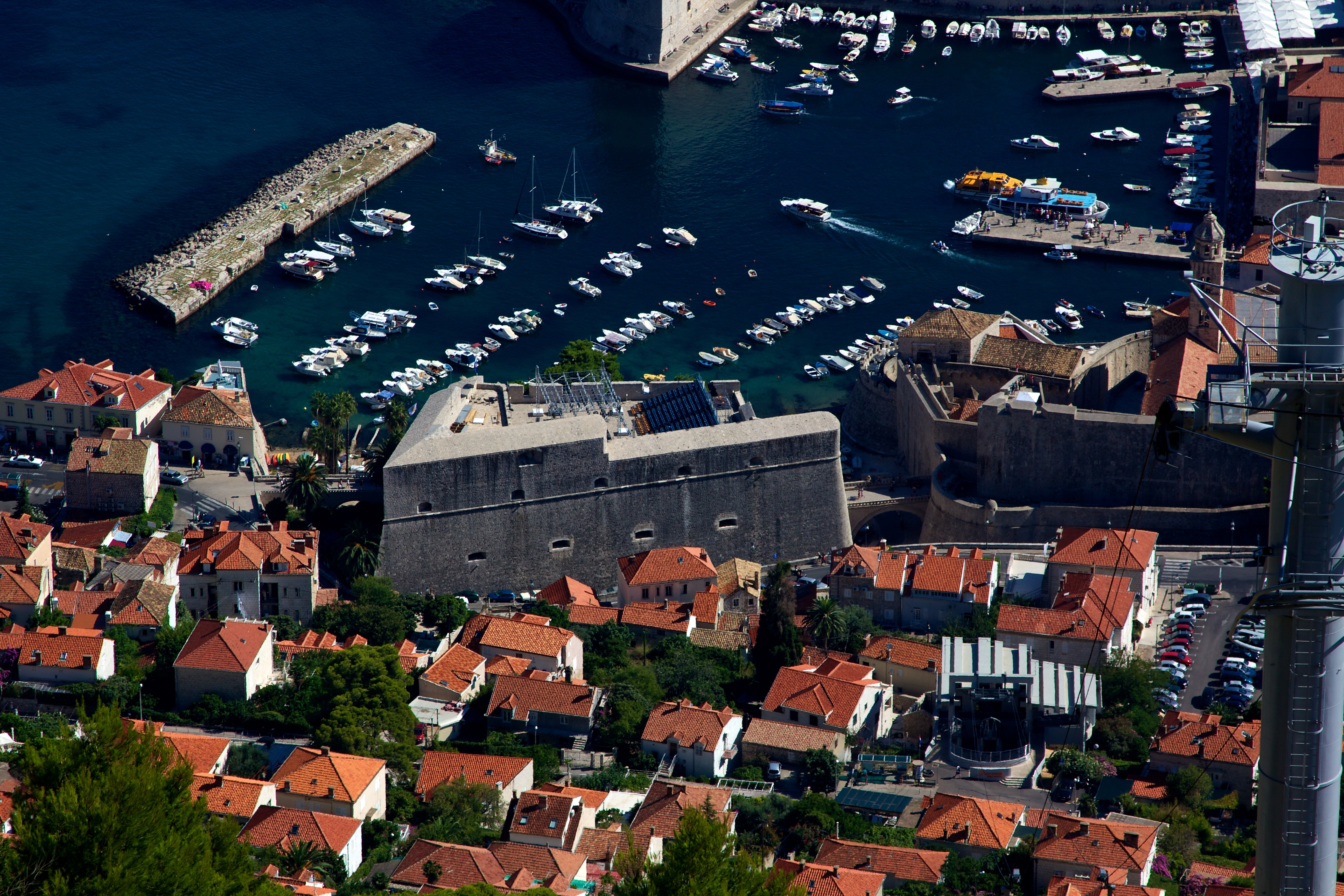 View from Srđ to the fort Revelin, Dubrovnik.